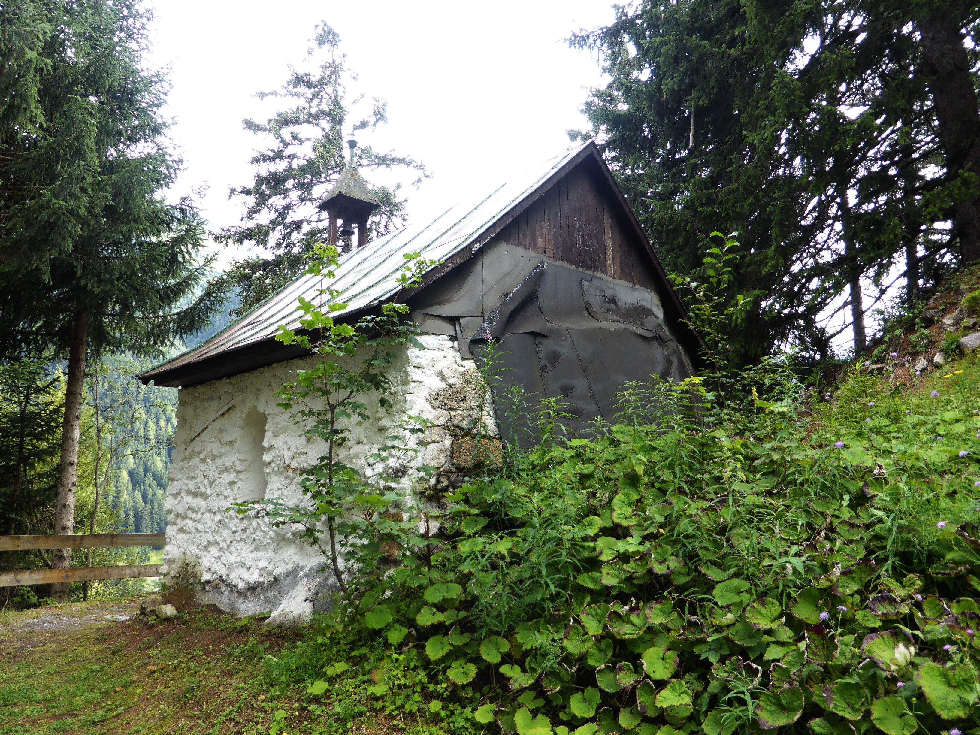 Burg Arlen (Lourdeskapelle) This media shows the remarkable cultural object in the Austrian state of Tyrol listed by the Tyrolean Art Cadastre with the ID 40631. (on tirisMaps, on tirisdienste.at, pdf, more images on Commons)